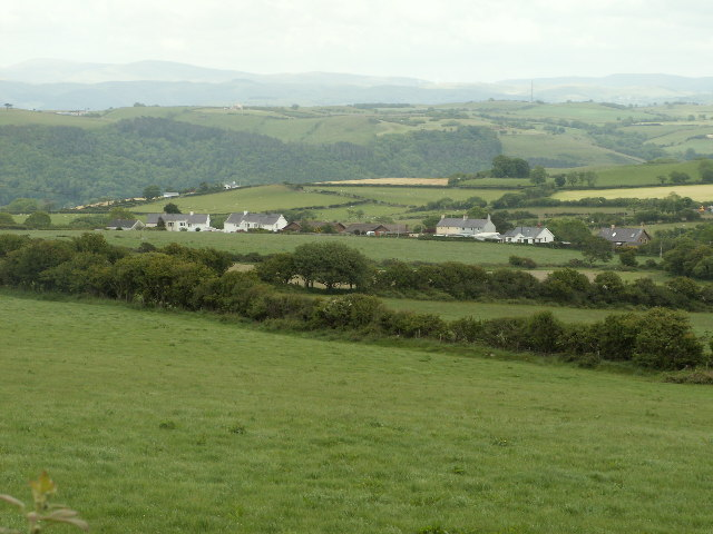 Blaenplwyf. Houses in Blaenplwyf on the A487. The village was known as Pont-llanio until 1957.